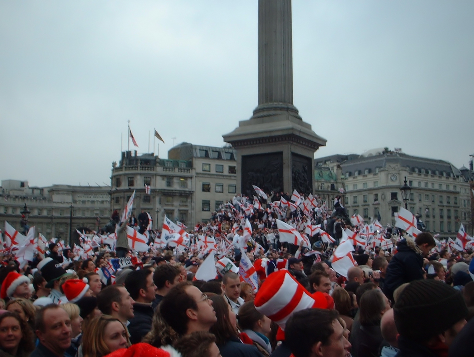 England celebrations after winning Rugby World Cup in 2003.